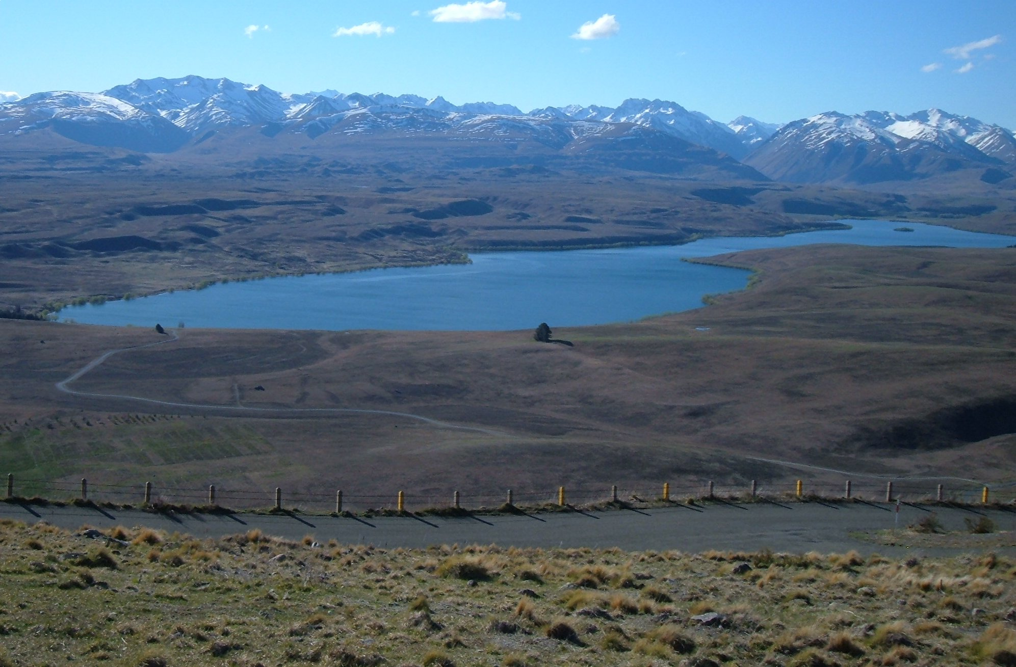 Lake Alexandrina, New Zealand as seen from the top of Mount John